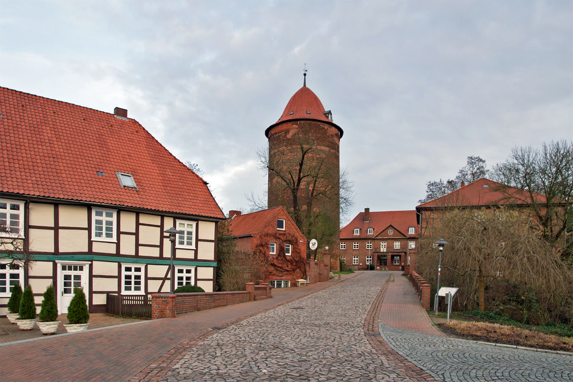 View to the "Amtsberg" in Dannenberg (Elbe) with medieval tower "Waldemarturm".